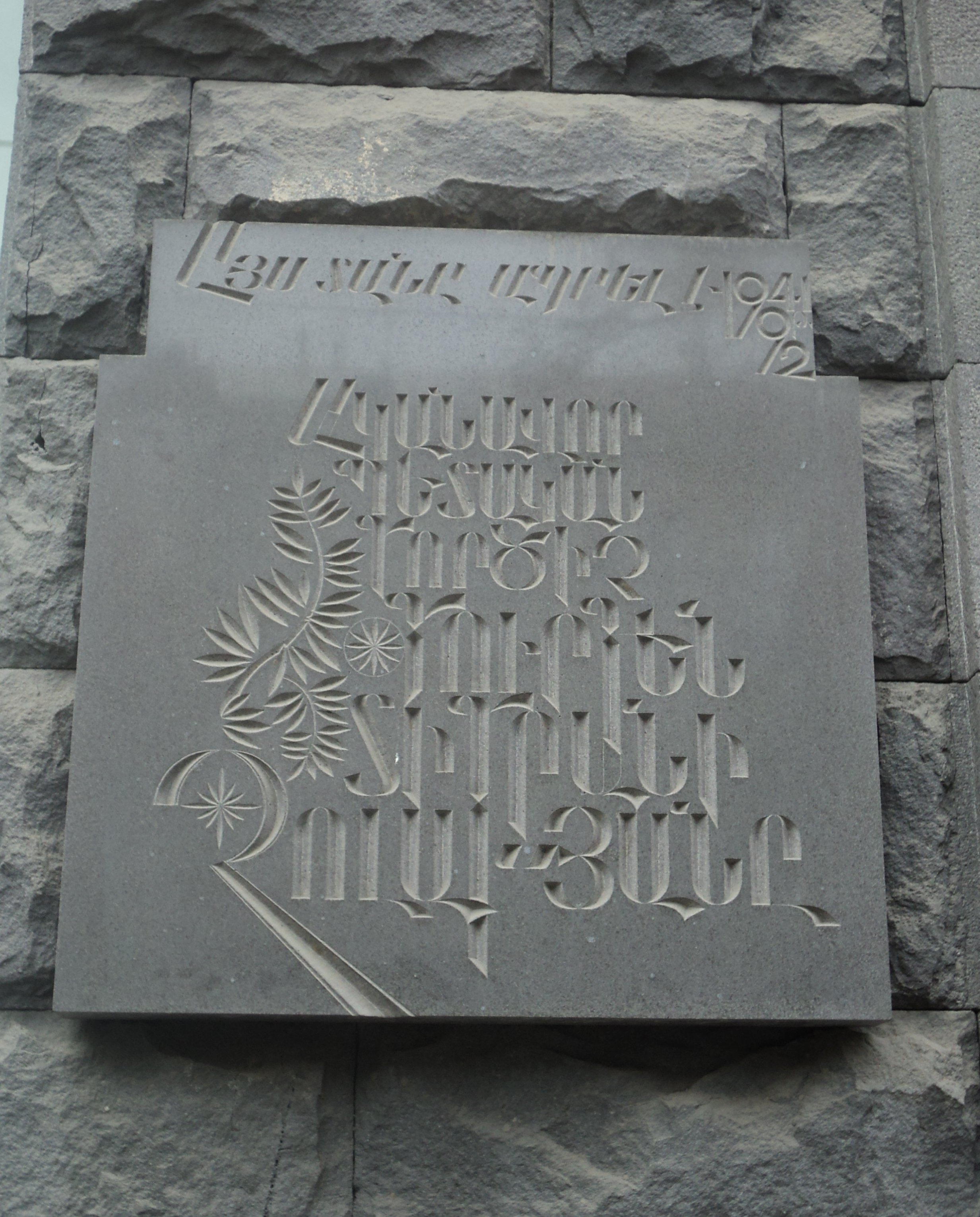 Gourgen Cholakhyan's plaque